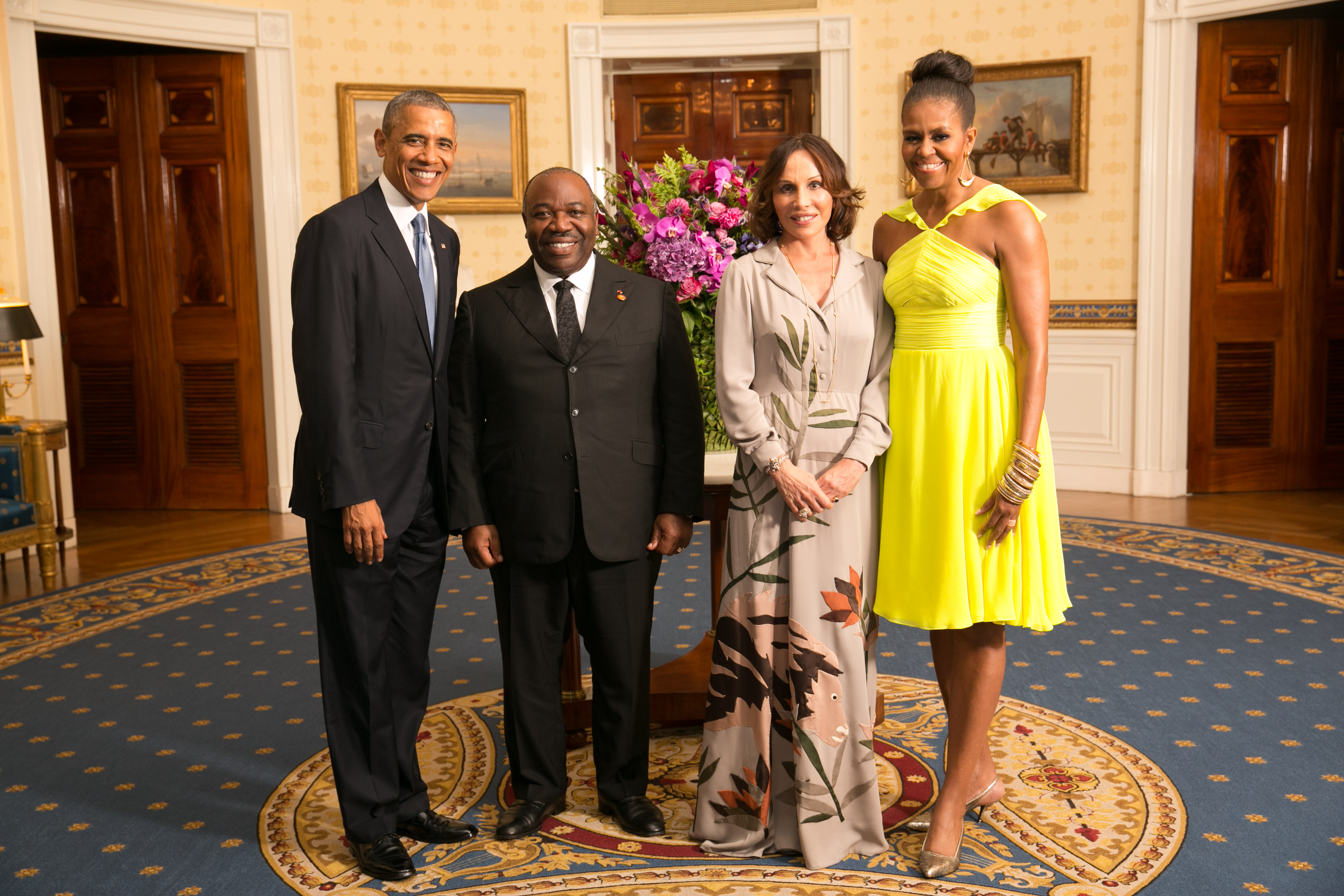 President Barack Obama and First Lady Michelle Obama greet His Excellency Ali Bongo Ondimba, President of the Gabonese Republic, and Mrs. Sylvia Bongo Ondimba, in the Blue Room during a U.S.-Africa Leaders Summit dinner at the White House, Aug. 5, 2014. [Official White House Photo by Amanda Lucidon] This official White House photograph is in the public domain from a copyright perspective, so while restrictions such as personality or privacy rights may apply, in general, manipulations are allowed.